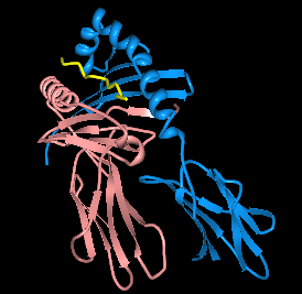 HLA-DQ2.5 with a deamidated gliadin peptide in the binding pocket(yellow). Alpha-5 (orange) and Beta-2(Blue). Image rendered from 1S9V using MBT Protein Workshop. 3D-structure as part of: Kim, C.-Y., Quarsten, H., Bergseng, E., Khosla, C., Sollid, L.M. (2004) Structural basis for HLA-DQ2-mediated presentation of gluten epitopes in celiac disease Proc.Natl.Acad.Sci.USA 101: 4175-4179.